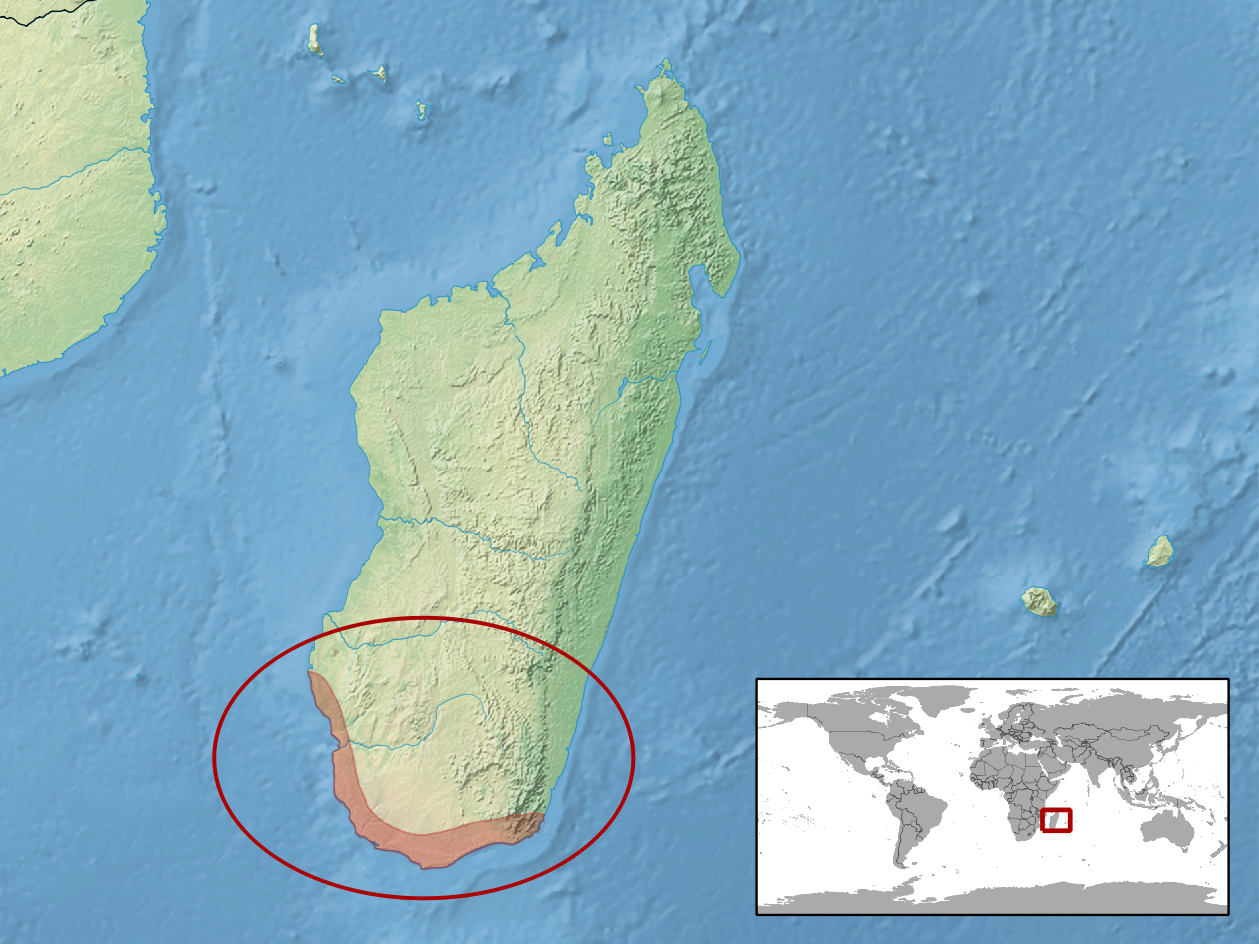 geographic distribution of Phelsuma modesta (Native: Madagascar)